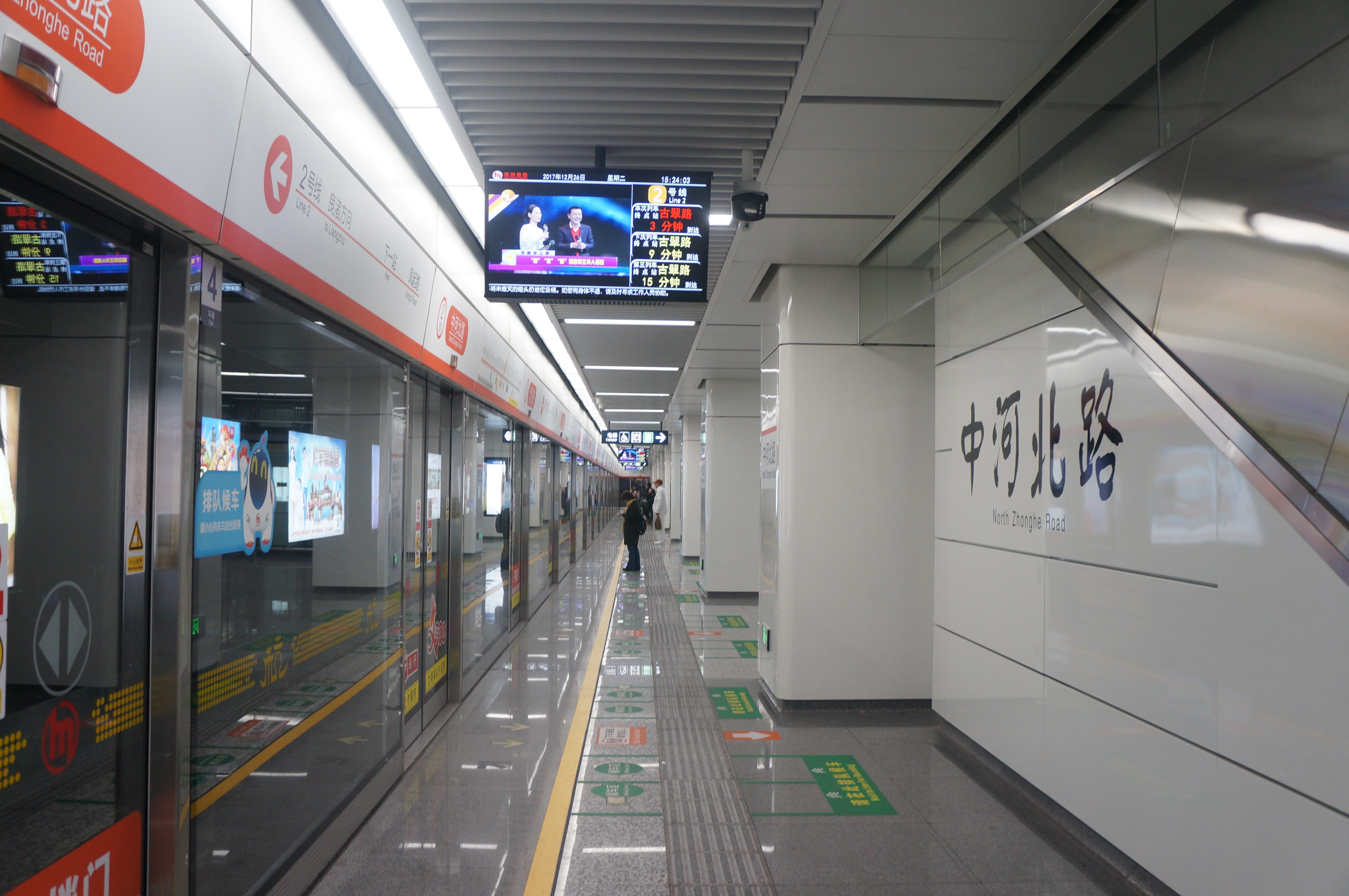 201712 Nameboard of North Zhonghe Road Station